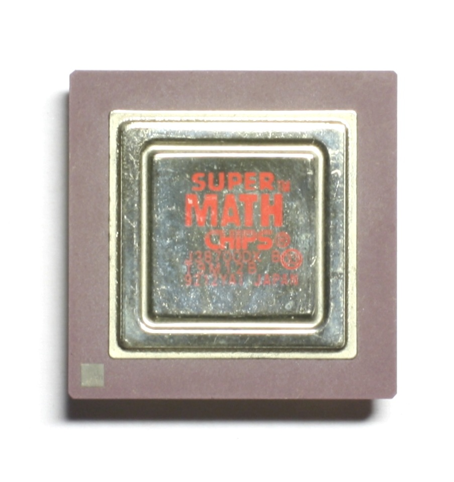 FPU Chips & Technologies J38700